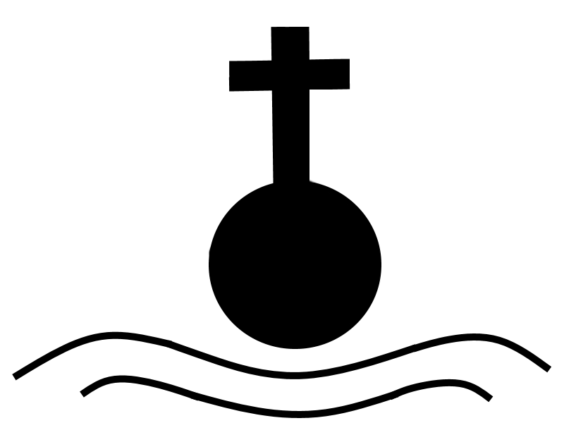 214. Infanterie Division, German Army, World War II